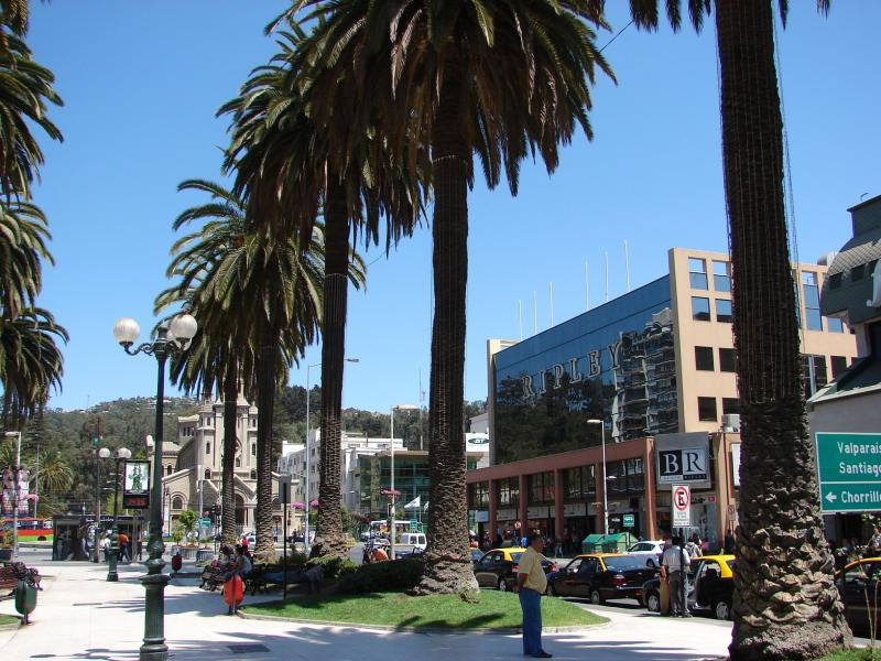 We returned south to Vina del Mar for a day trip. Like Zapallar is a spa and known for its beach life. The city grew out of a vinyard back then.